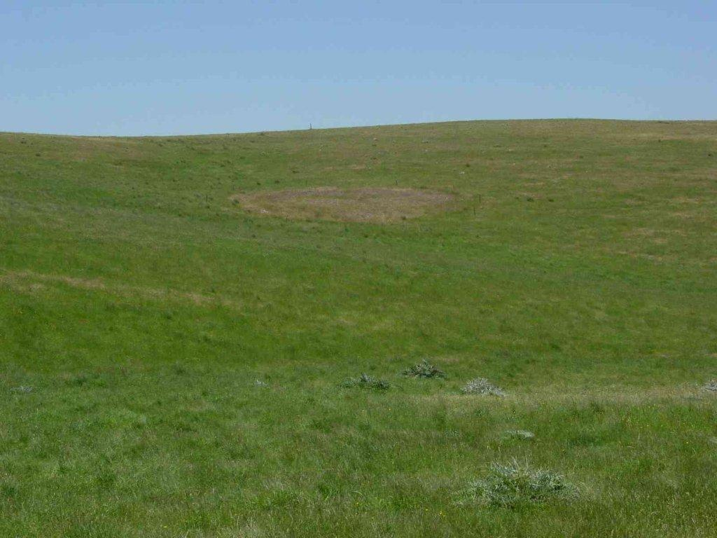 Riddells Road Aboriginal Earth Ring, Sunbury. View from Riddells Road to the north east, earth ring showing clearly as dry grass due to shallow soil. Photograph by Gary Vines